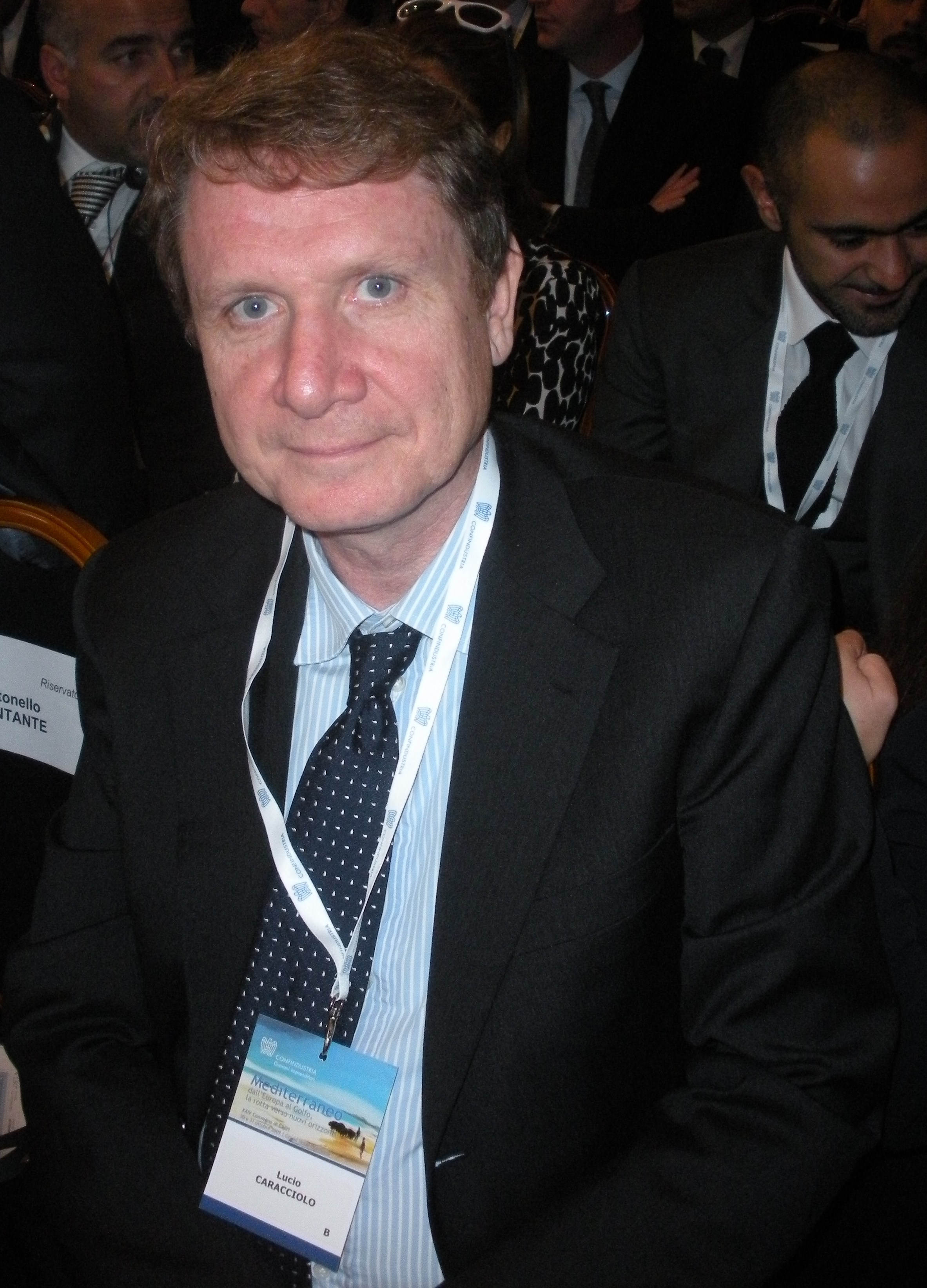 Lucio Caracciolo, italian journalist and professor.